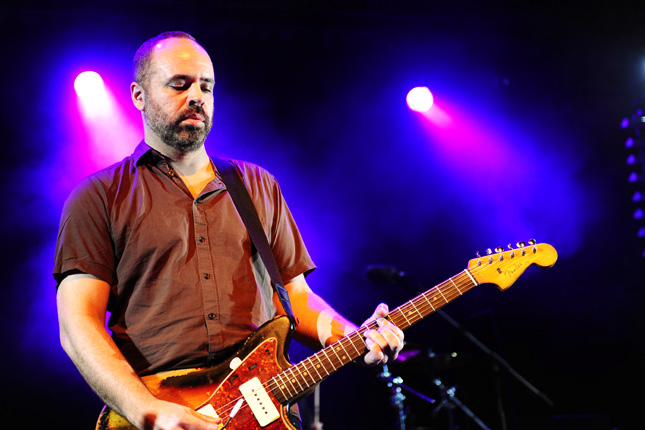 Swervedriver @ Beck's Music Box (20/2/2011)